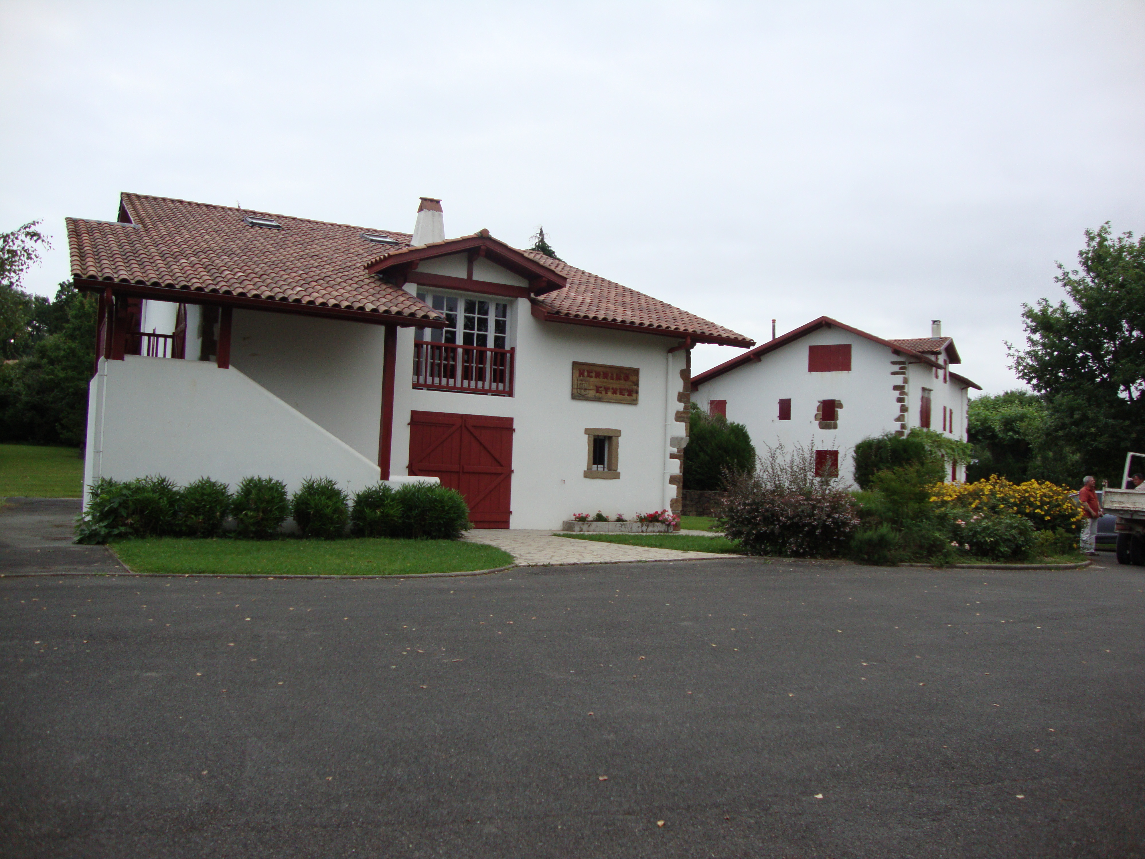 Jatxou (Pyr-Atl. Fr) town hall.